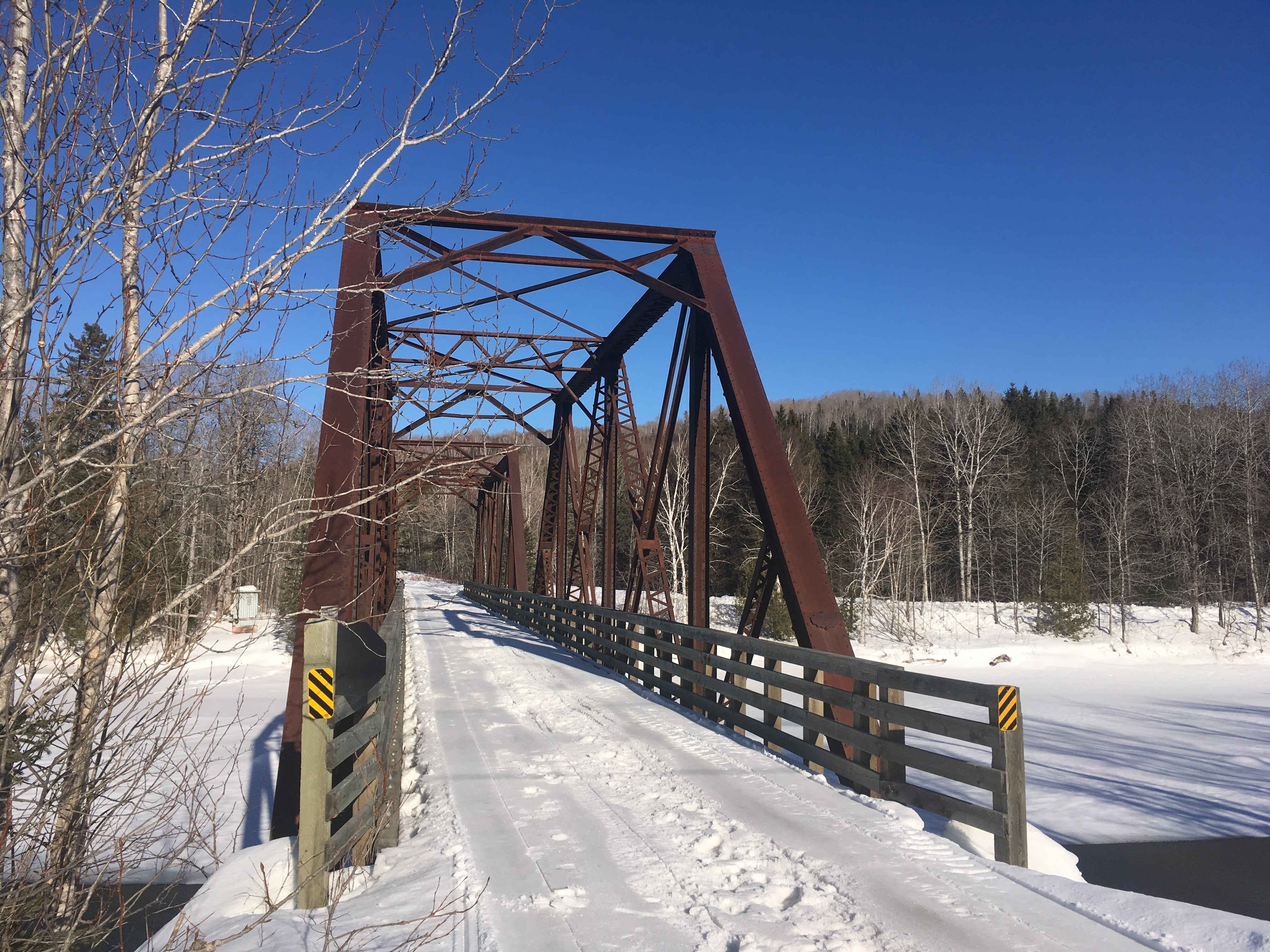 The former rail bridge for the INR line in New Brunswick, now trail bridge for the International Appalachian Trail, NB Trail System, New Brunswick Federation of Snowmobile Clubs (NBFSC) Trail System, and the New Brunswick All Terrain Vehicle Federation (NBATVF) Trail System. -Upsalquitch, New Brunswick.